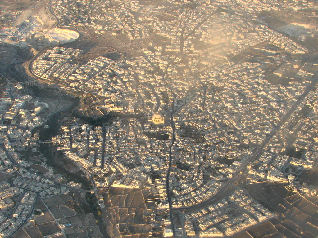 Republic of Malta, Mosta - Fly view at the sunset, with the Dome in the middle